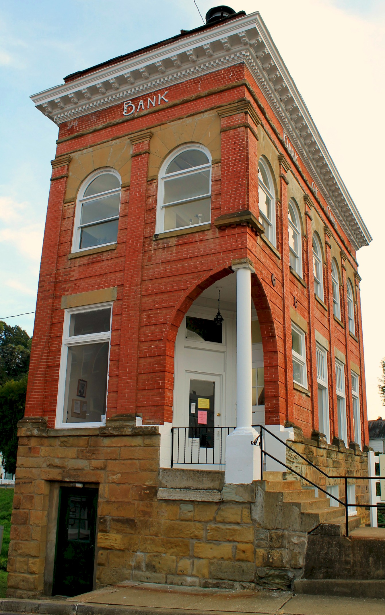 Bank of Cairo